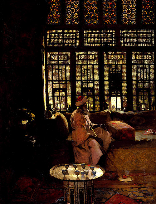 Photograph of An Arab Interior, 1881. Oil on canvas, by Arthur Melville. In the public domain.